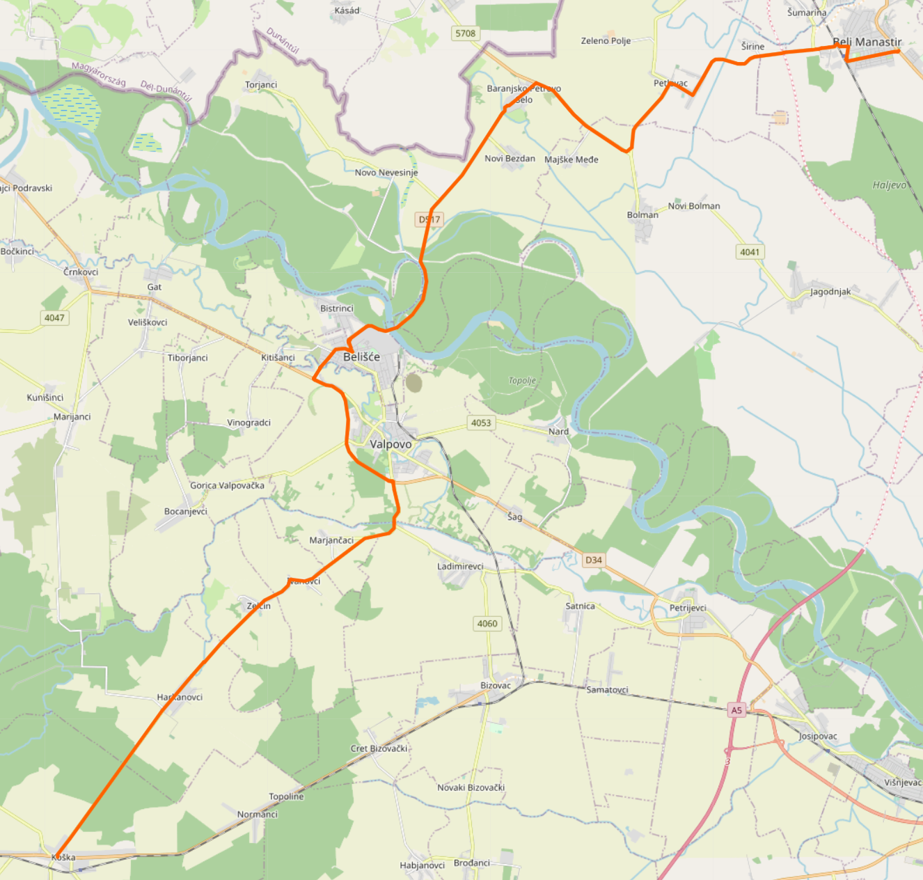 Overview map of D517 state road (Croatia), map extent: N:45.828°, S:45.482°, W:18.174°, E:18.753° © OpenStreetMap contributors, CC-BY-SA